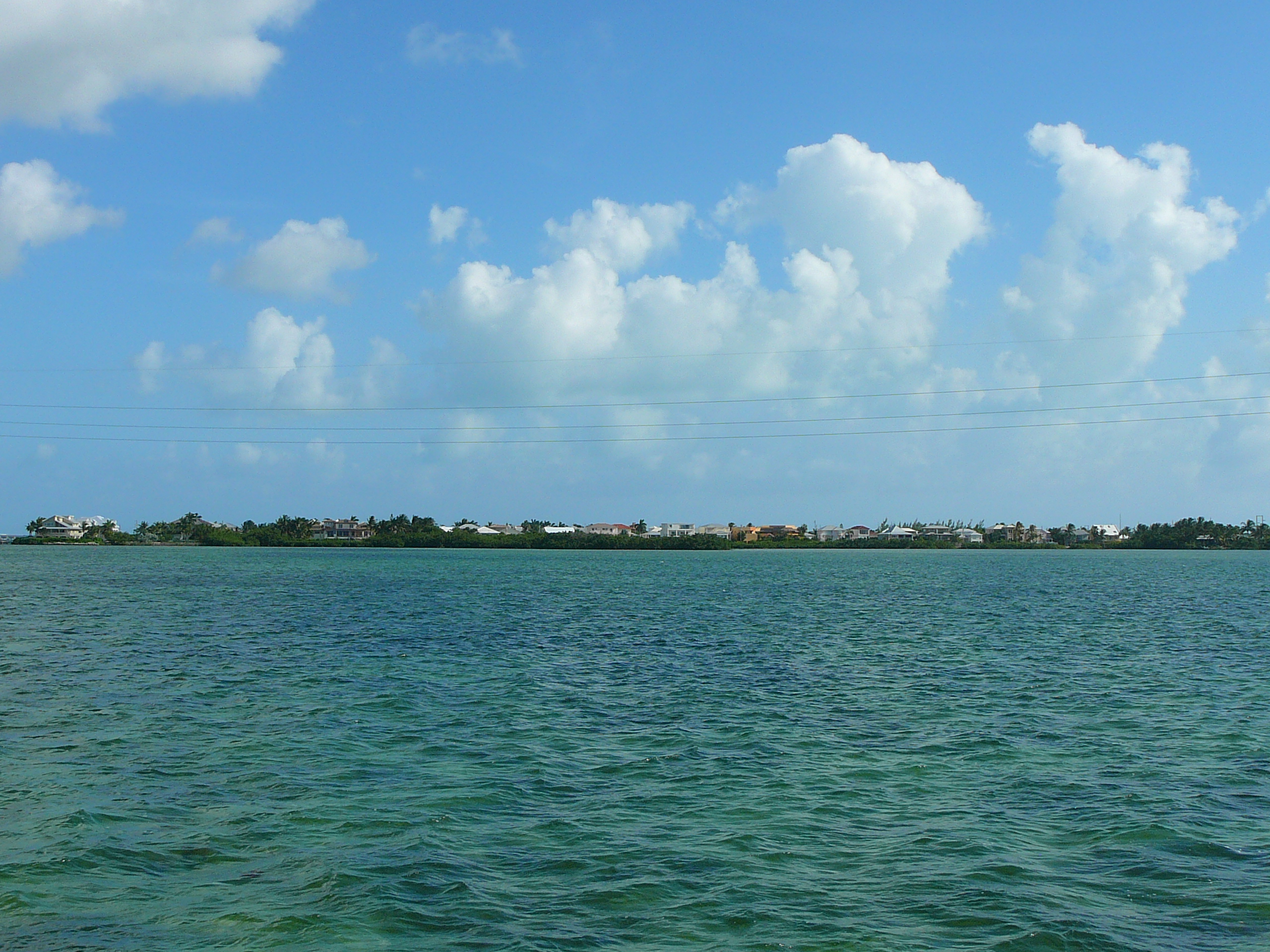 View looking west from Key Haven. Northern Stock Island (the city of Key West) visible in background.